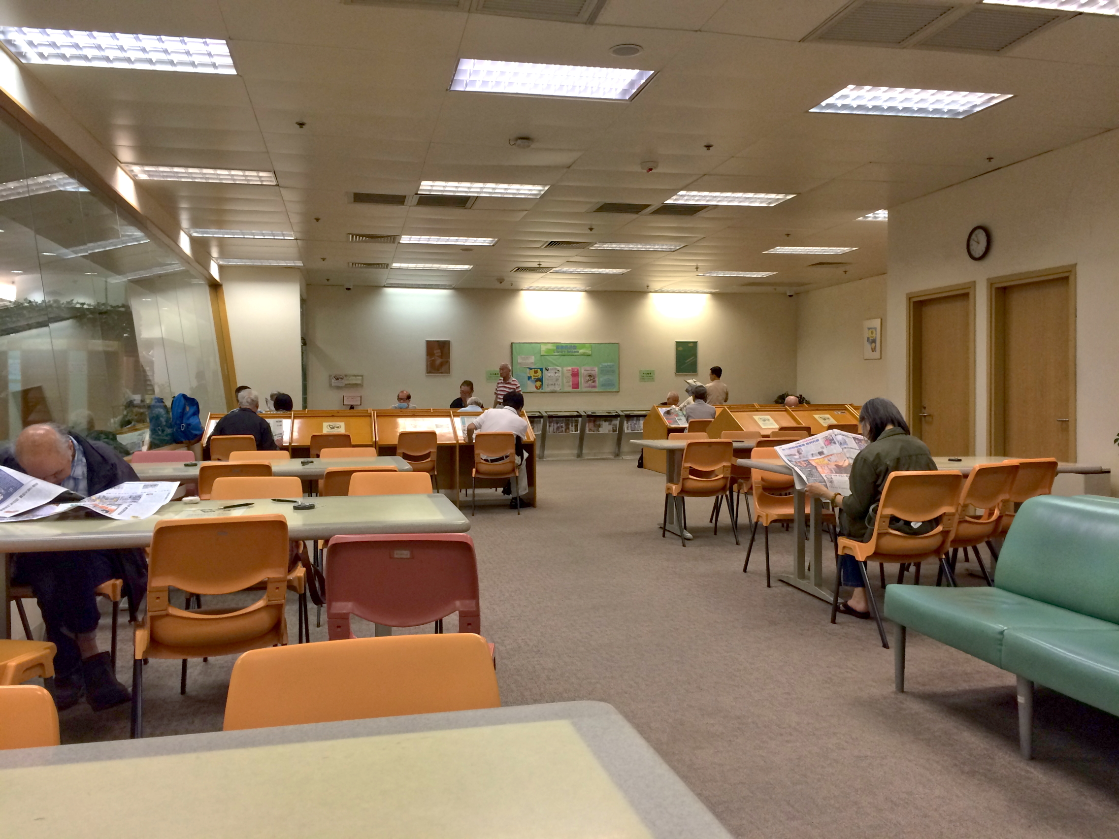 Fanling Public Library News Reading Room